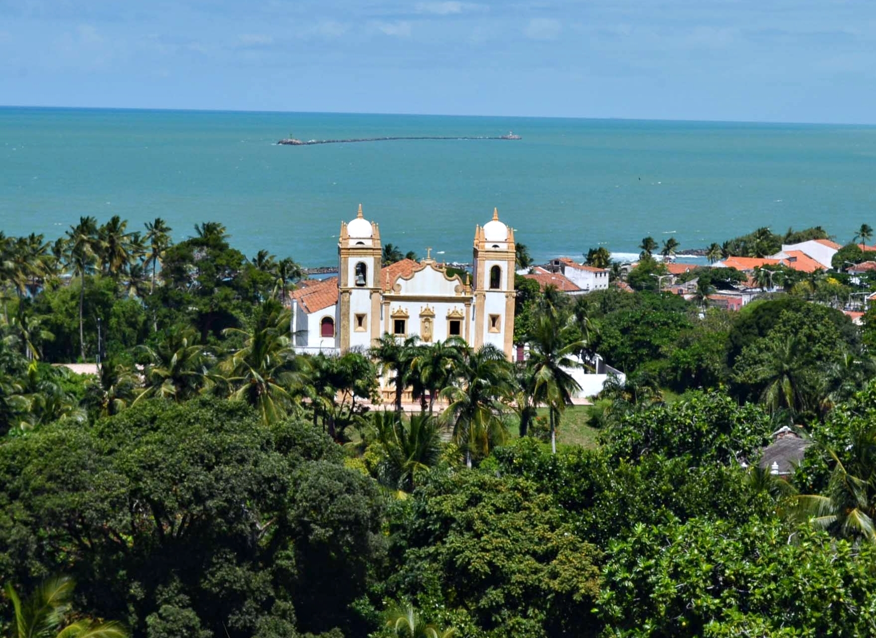 Church of Carmo, the first church of the Order of Carmelites in the Americas - Olinda, Pernambuco, Brazil